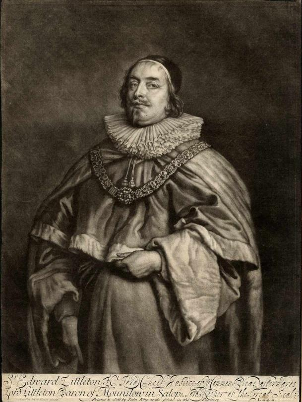 Mezzotint portrait of Edward Littleton (1589–1645), Lord Chief Justice of the Common Pleas